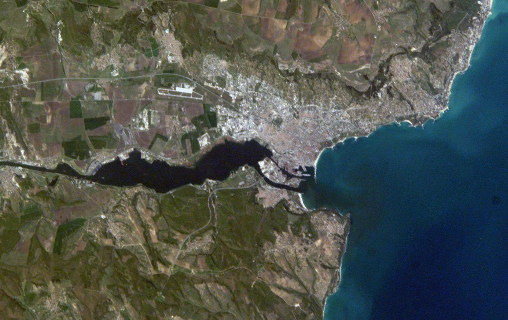 Picture of Varna from the International space station. The original image is rotated 115° clockwise and is cropped.